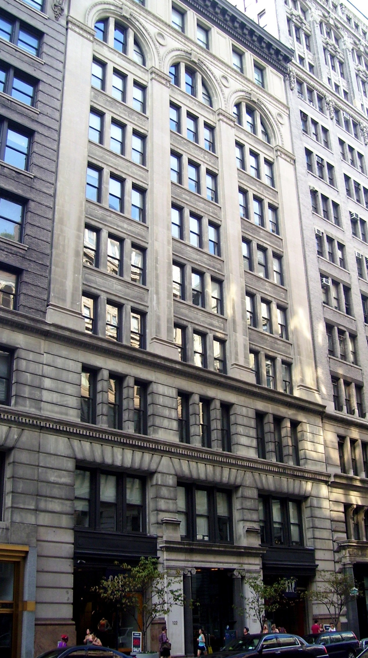 122 (122-124) Fifth Avenue between West 17th and 18th Streets in the Flatiron District neighborhood of Manhattan, New York City, was built in 1899-1900 as a store and loft building and was designed by Robert Maynicke in neo-Renaissance style. Its rusticated limestone base was later copied by the adjacent building at 118 Fifth Avenue, designed by John B. Snook Sons. and built in 1905-06. Both buildings are located within the Ladies' Mile Historic District. (Source: "NYCLPC Ladies' Mile Historic District Designation Report, volume 1") The building serves as the corporate headquarters for Barnes & Noble Inc.